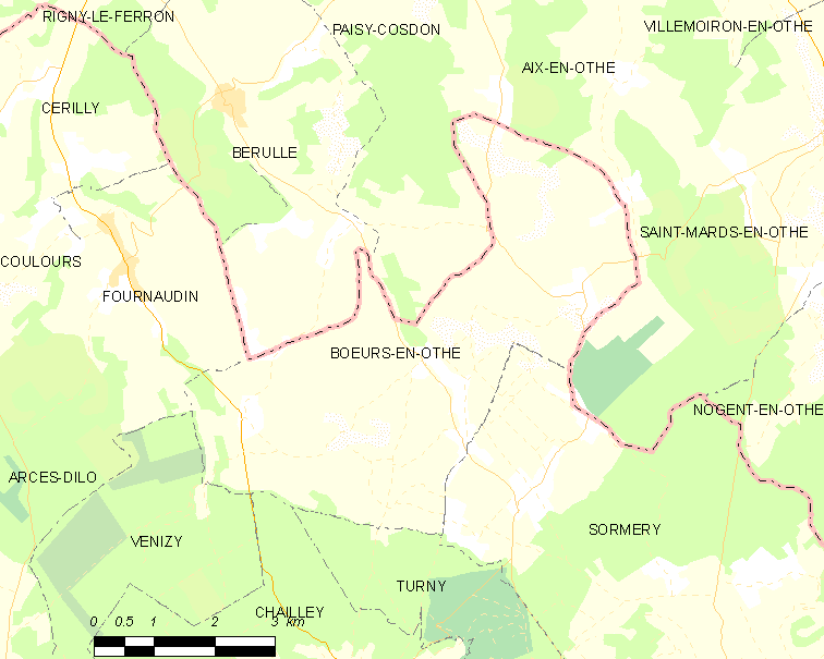 Map of French municipality Bœurs-en-Othe